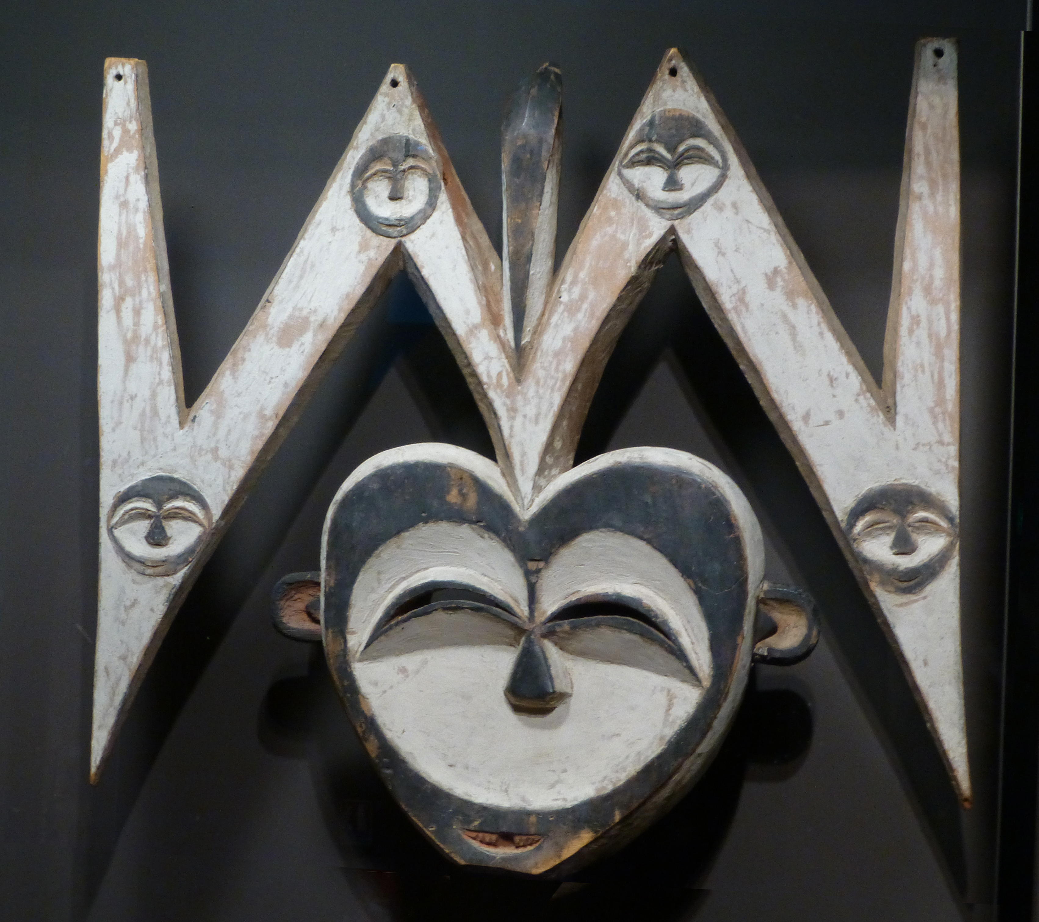 Kwele mask. Dimensions: H. 66; l. 67; P. 8 / Materials: wood; pigments. Republic of Congo. Collect of Alexandre Petit-Renaud, agent of the company of the brothers Tréchot, in Sembé (Republic of Congo) (Concessionary company Ngoko-Sangha). Museum of Natural History of La Rochelle. France. Gift in 1935. Communication by the museum: "Four types of zoomorphic and anthropomorphic facial masks are made and used by the Kwele for their beete ritual. This specimen which is to classify among anthropomorphic horned masks refers to the spirits of the forest (ekuk)"